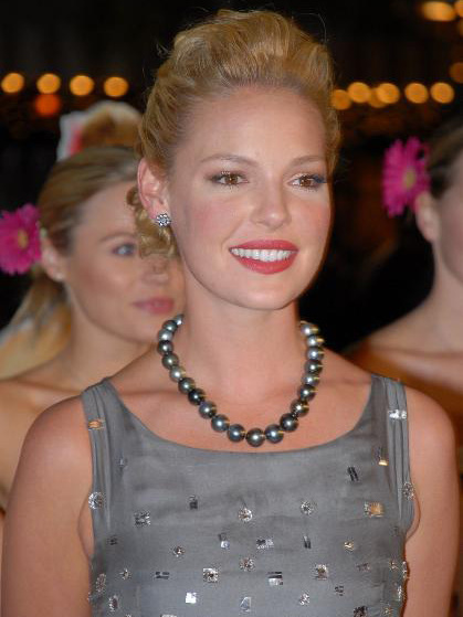 January 7, 2008 - 27 Dresses Premiere in Westwood